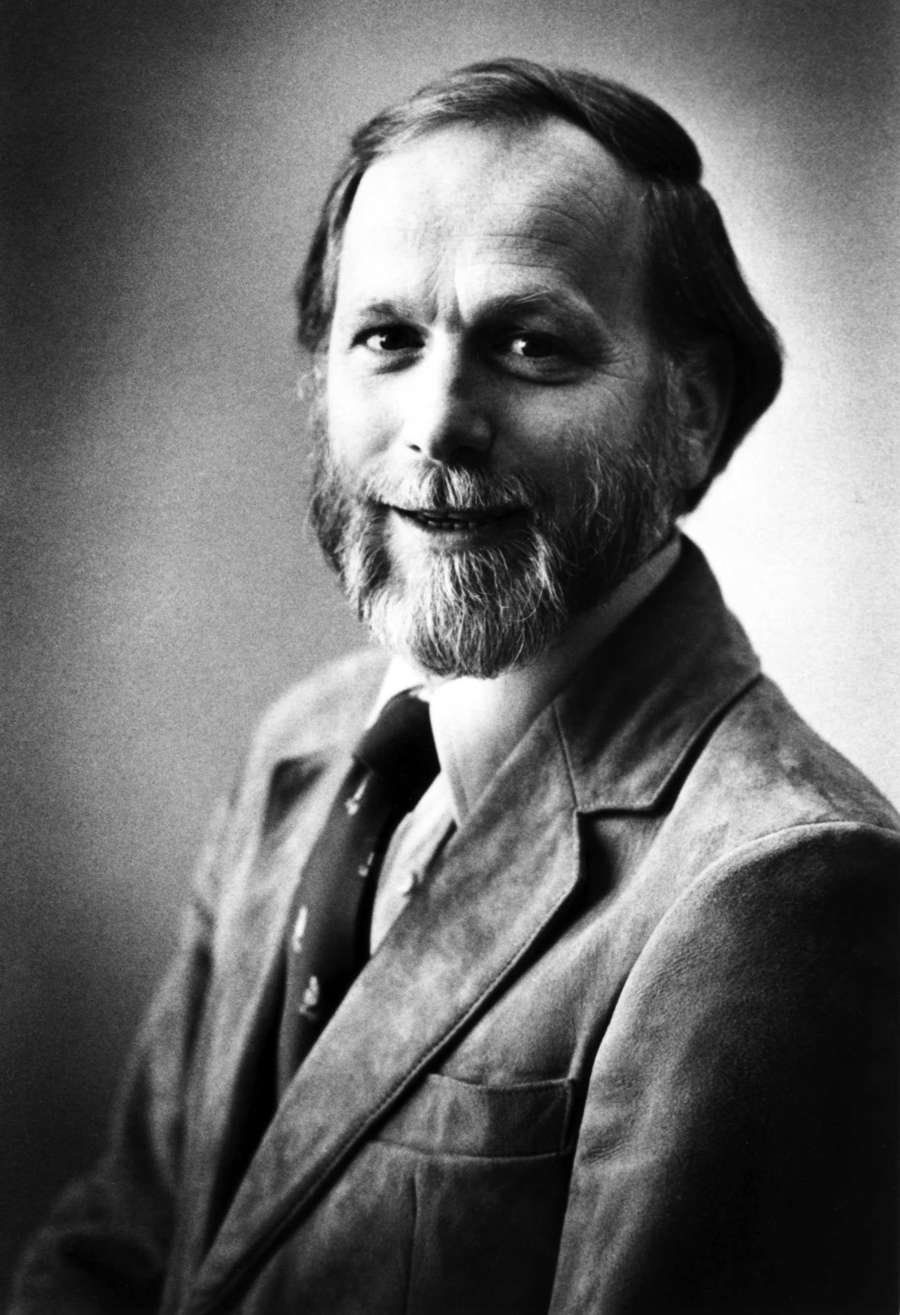 Title: Historical Portrait: J. Michael Bishop Description: J. Michael Bishop, M.D. Director, G.W. Hooper Foundation Professor of Microbiology - University of California School of Medicine at San Francisco co-winner of 1984 Alfred P. Sloan Prize. Subjects (names): Bishop, J. Michael Topics/Categories: Historical -- People People -- Adult Type: B&W Source: General Motors Cancer Research Foundation Author: Unknown Date Created: Unknown Date Added: 1/11/2010 Reuse Restrictions: None - This image is in the public domain and can be freely reused. Please credit the source and/or author listed above.